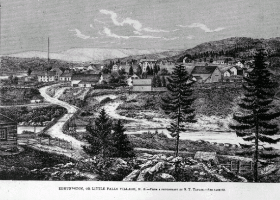 Edmunston, or Little Falls Village, New Brunswick, Canada in 1872